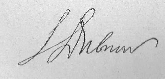 Signature of Simon Dubnow